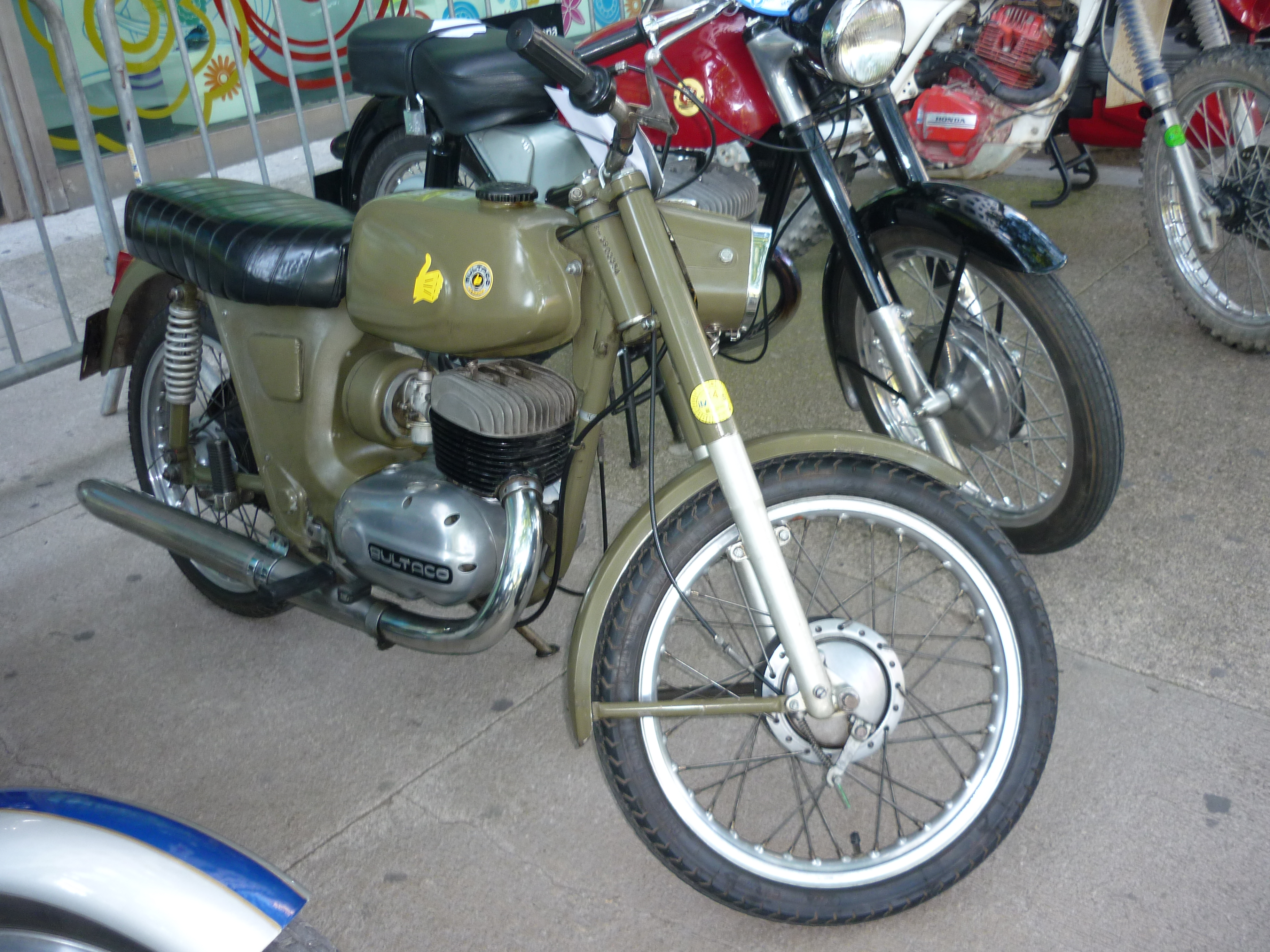 In green: Bultaco Junior "Ejército" 125cc, 1971. Used by the spanish army.